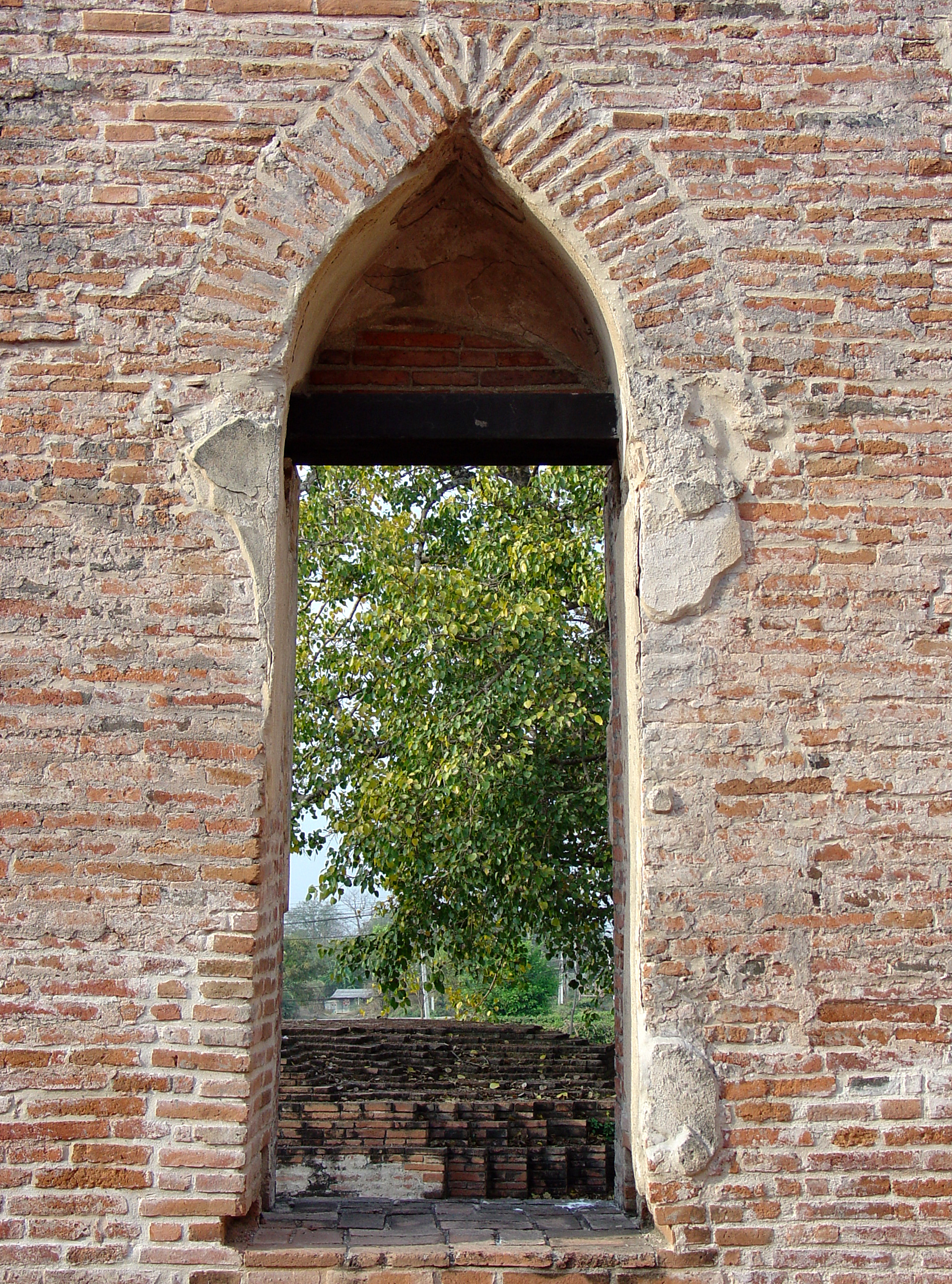 Pointed Arch. Monastery Hall, Wat Kudidao. 17th century (restored). The slender dimensions and subtly curved apex of this arch, like the slender and tapering columns inside the hall, lend elegance to the building's vertical dimension.